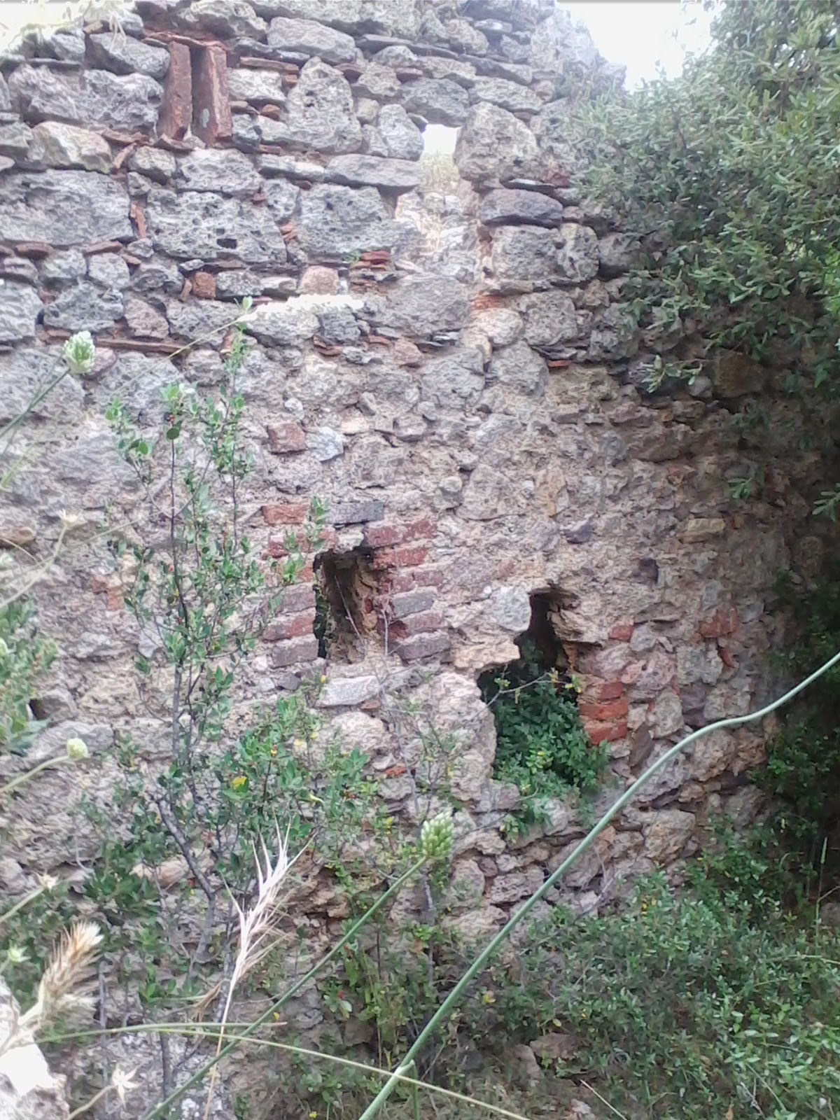 Romitorio di Santa Maria Maddalena - Montepescali - parete laterale